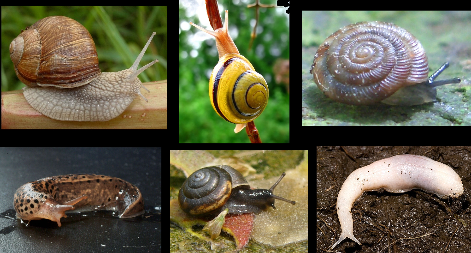 Composite of 6 Pulmonata images. Images: Helix Pomatia, Snail, Discus Rotundatus, Slug_curled Up Lg, Trochulus Hispidus Live, Ghost Slug Adult